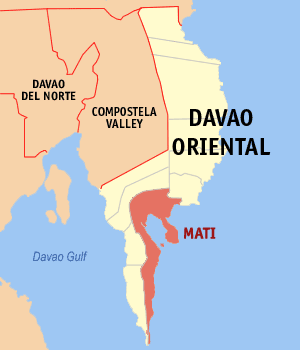 Map of the Davao Oriental showing the location of Mati City